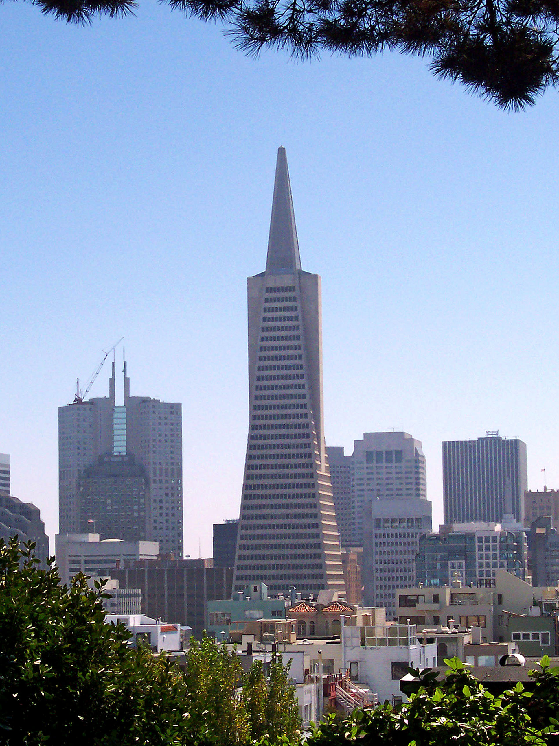 Transamerica Pyramid in San Francisco, California